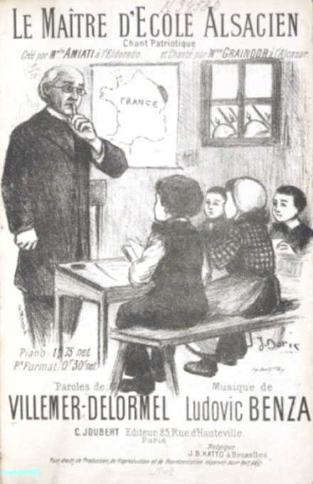 Cover art of Sheet music, a new edition by Joubert editor